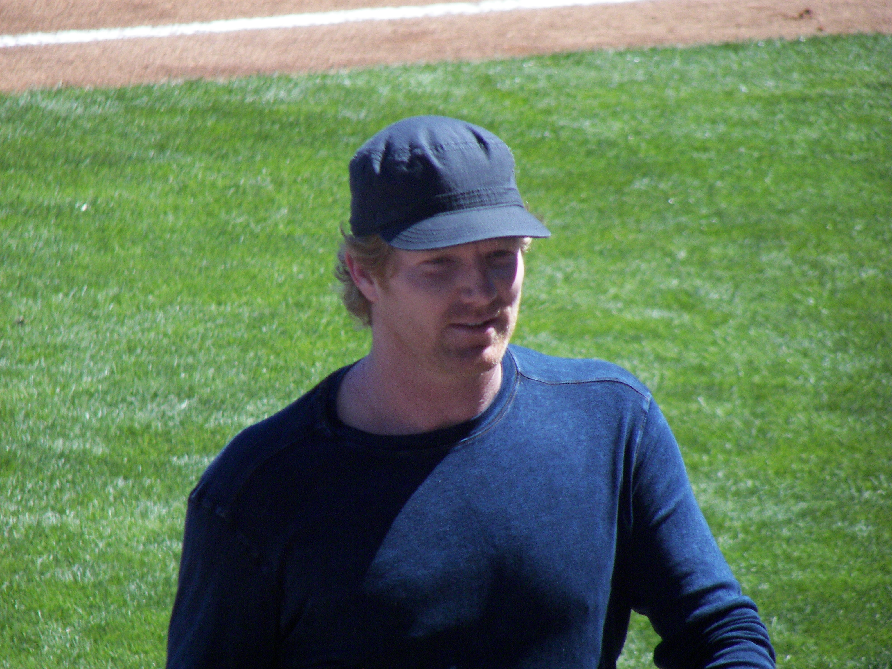 Former tennis player Jim Courier after throwing out the ceremonial first pitch of a Dodgers/Boston Red Sox spring training game at City of Palms Park in Fort Myers, Florida.